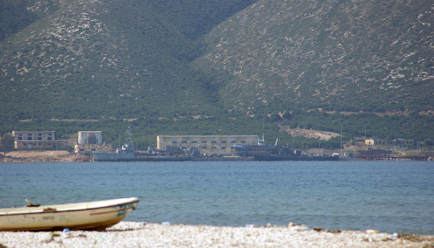 Ships in the Albanian Navy harbour of Pashaliman, Orikum, Vlorë